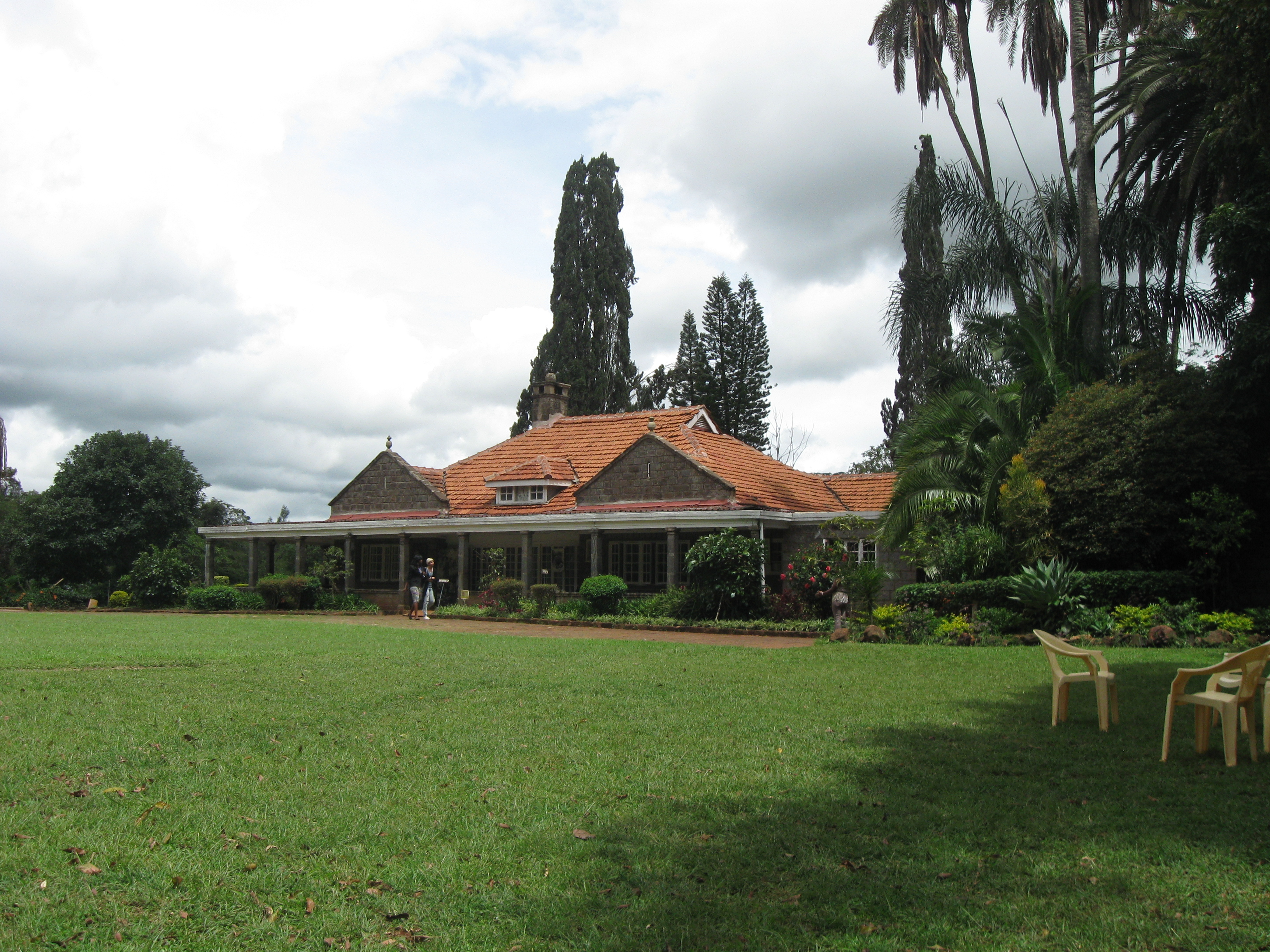 Karen Blixen museum, Nairobi, Kenya. The house